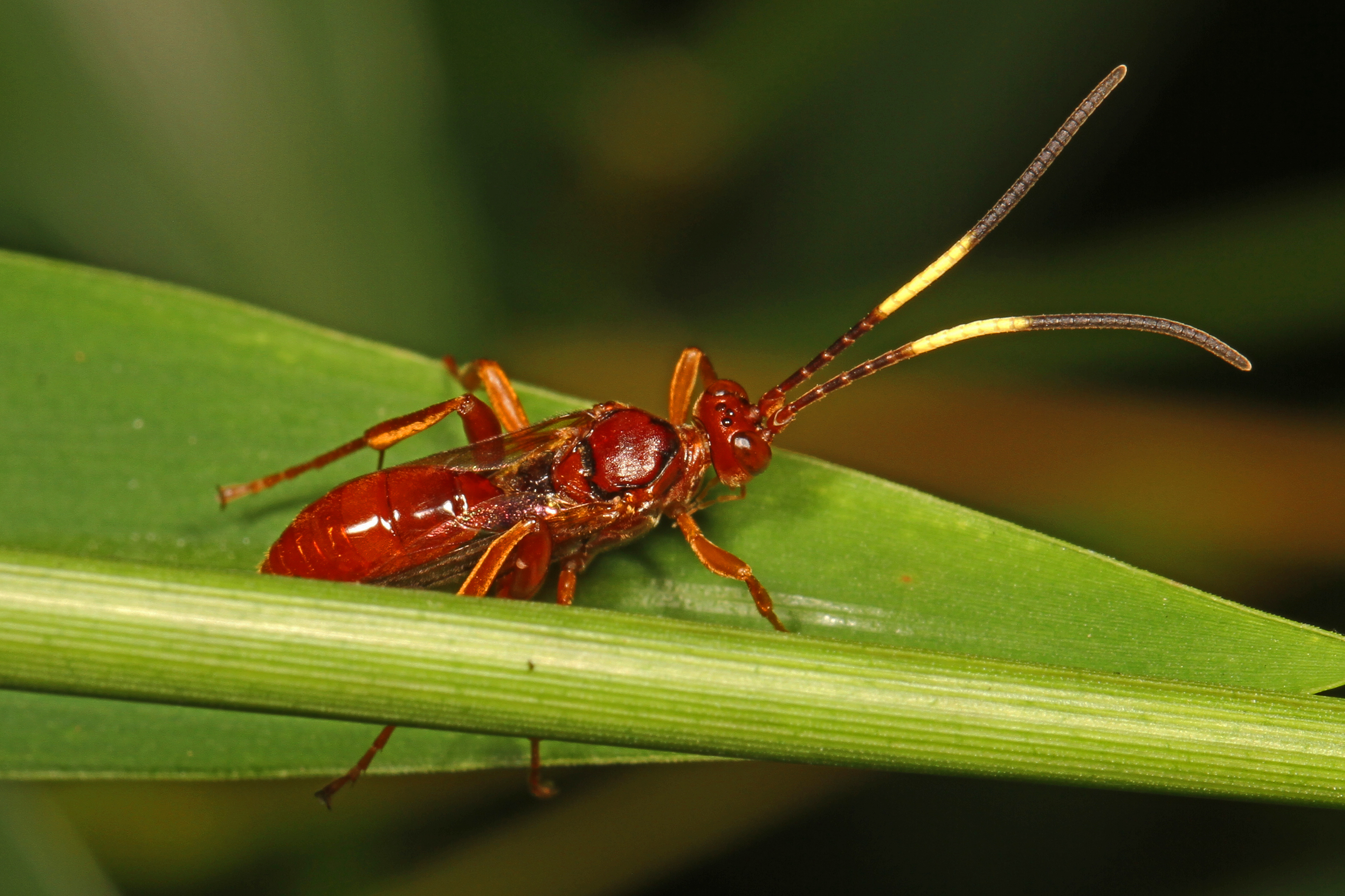 Ichneumon Wasp - Polytribax pallescens, Meadowood Farm SRMA, Mason Neck, Virginia. I followed this fairly small, very active wasp around for about an hour, and was unable to get a well-focused shot that was not partially obscured by vegetation. Since it's an uncommon species, I'm posting this anyway.